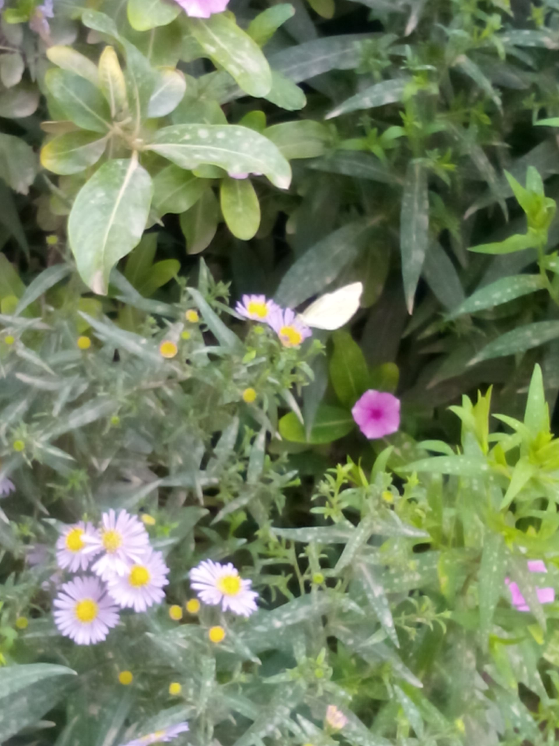 Flowers in the Garden